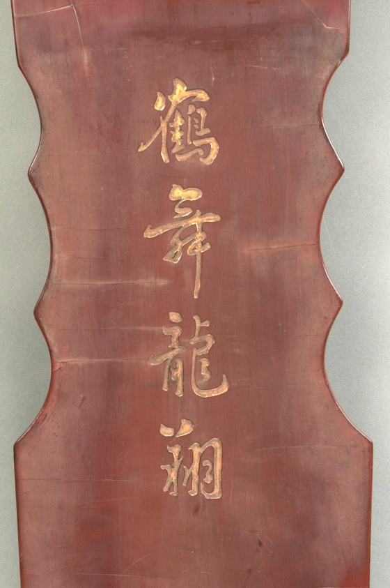 Inscription at the back of the qin Hewu Longxiang (鶴舞龍翔)